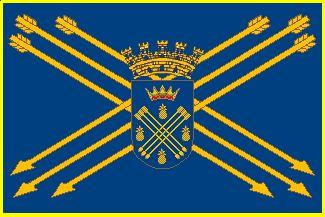 Flag of Caguas